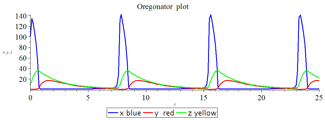 Oregonator Maple plot